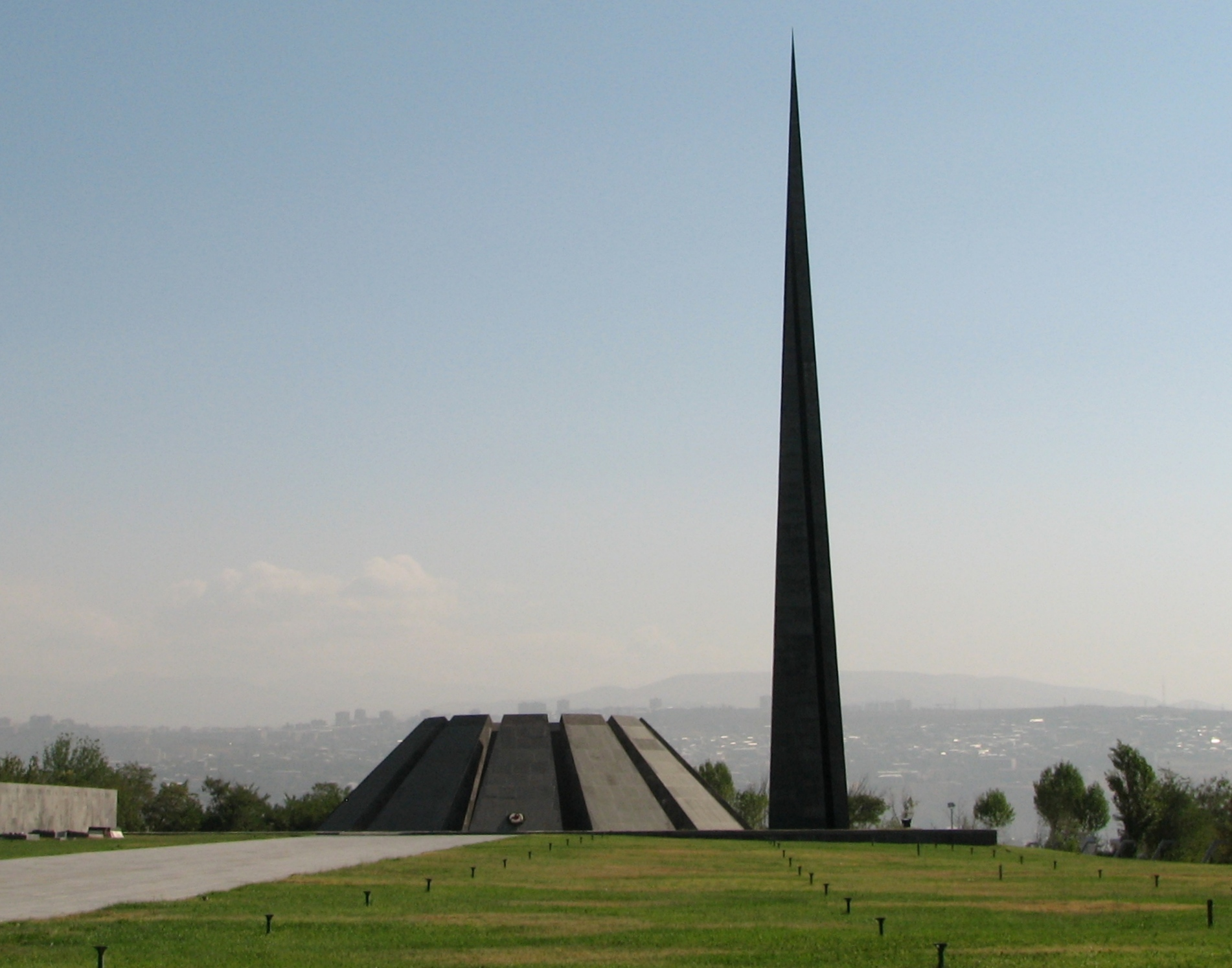 Armenian Genocide Museum-Institute in Yerevan, Armenia